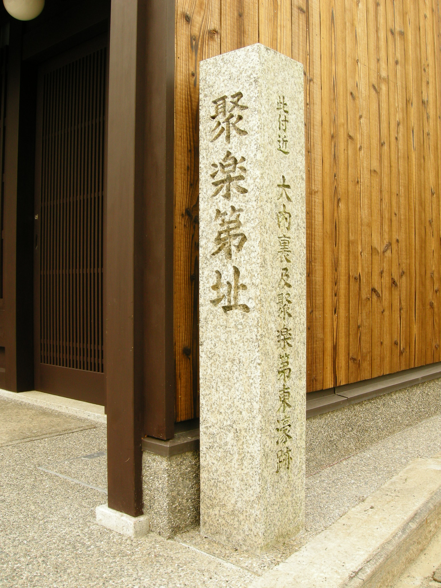 This stone marker indicates the site of "Jyu-raku-tei" which has existed in Kyoto, Japan in late 16th Century.